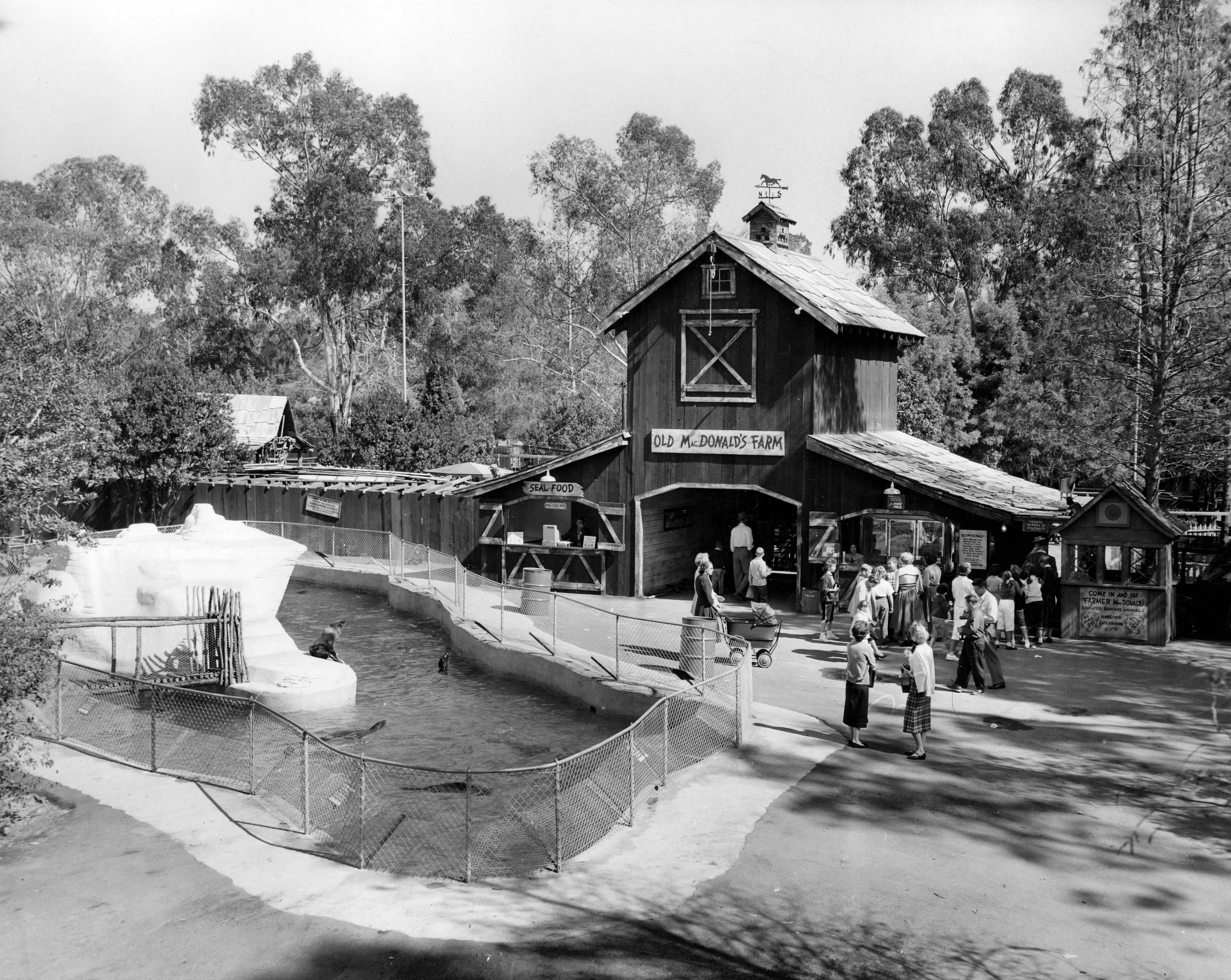 The Old MacDonald's Farm petting zoo at Knott's Berry Farm, with the seal pool at the entrance.